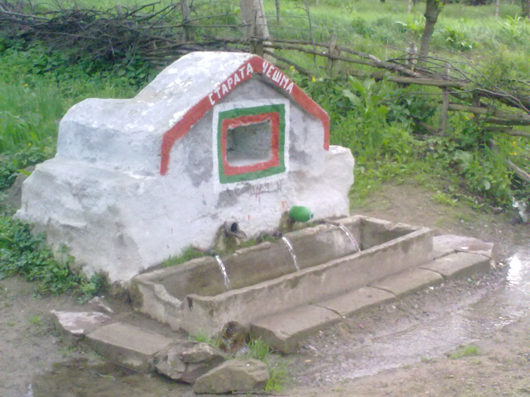 "Old Fountain" located in the village Srebrinovo (Srbinovo neighborhood), Pazardzhik, Bulgaria